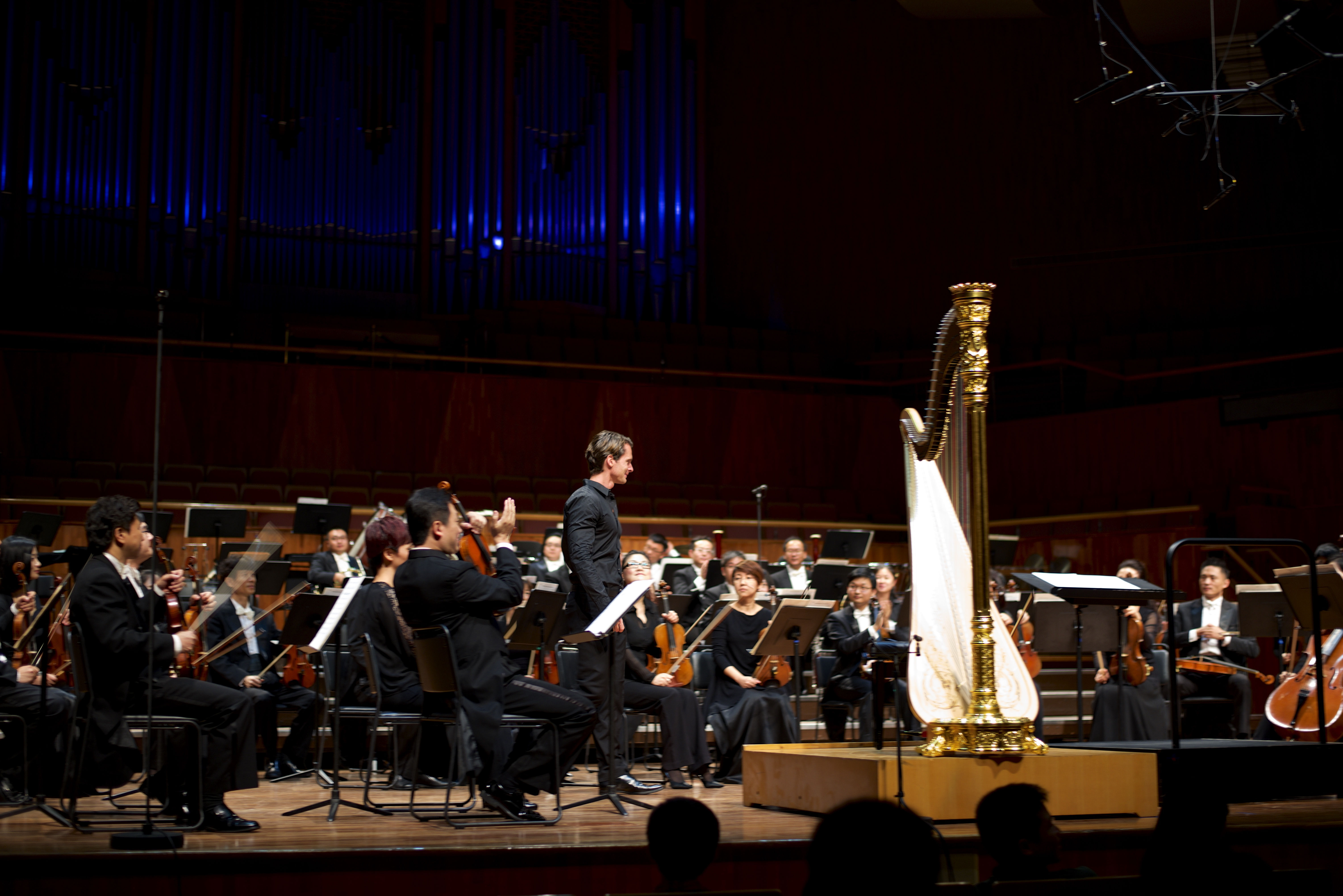 Xavier de Maitre in a concert with Guangzhou Symphony Orchestra.